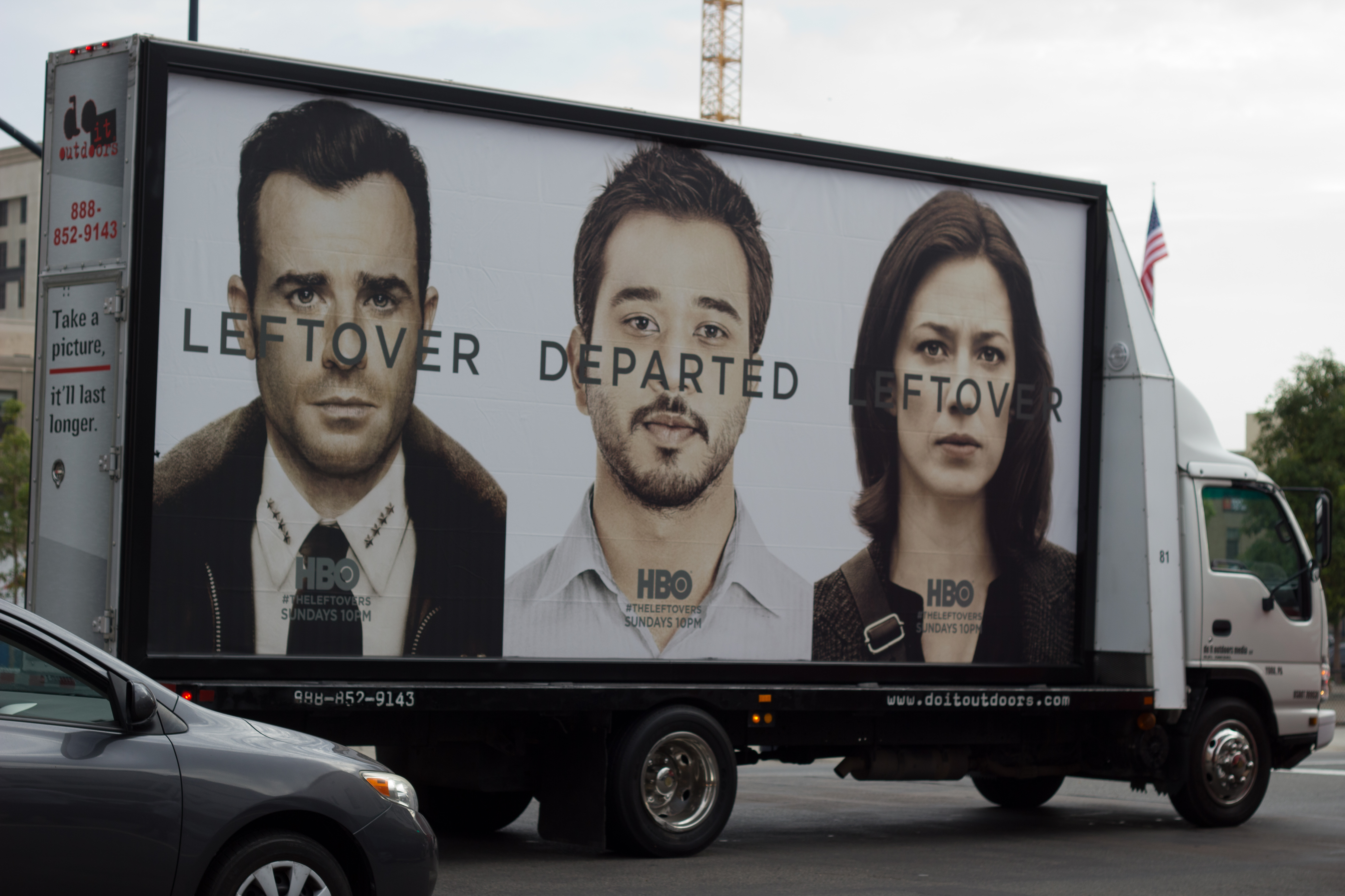 The Leftovers